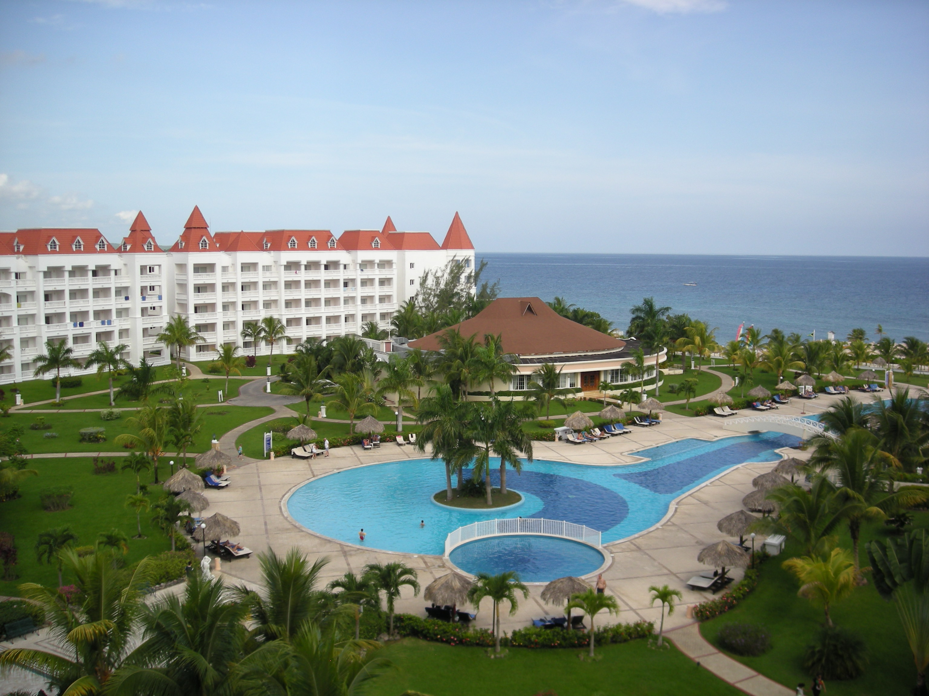 Bahia Principe Resort in Jamaica